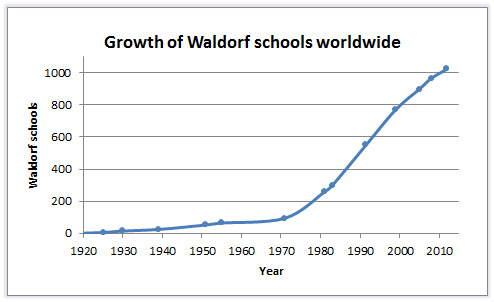 This graphs the number of Waldorf schools worldwide from their inception in 1919 to 2012.